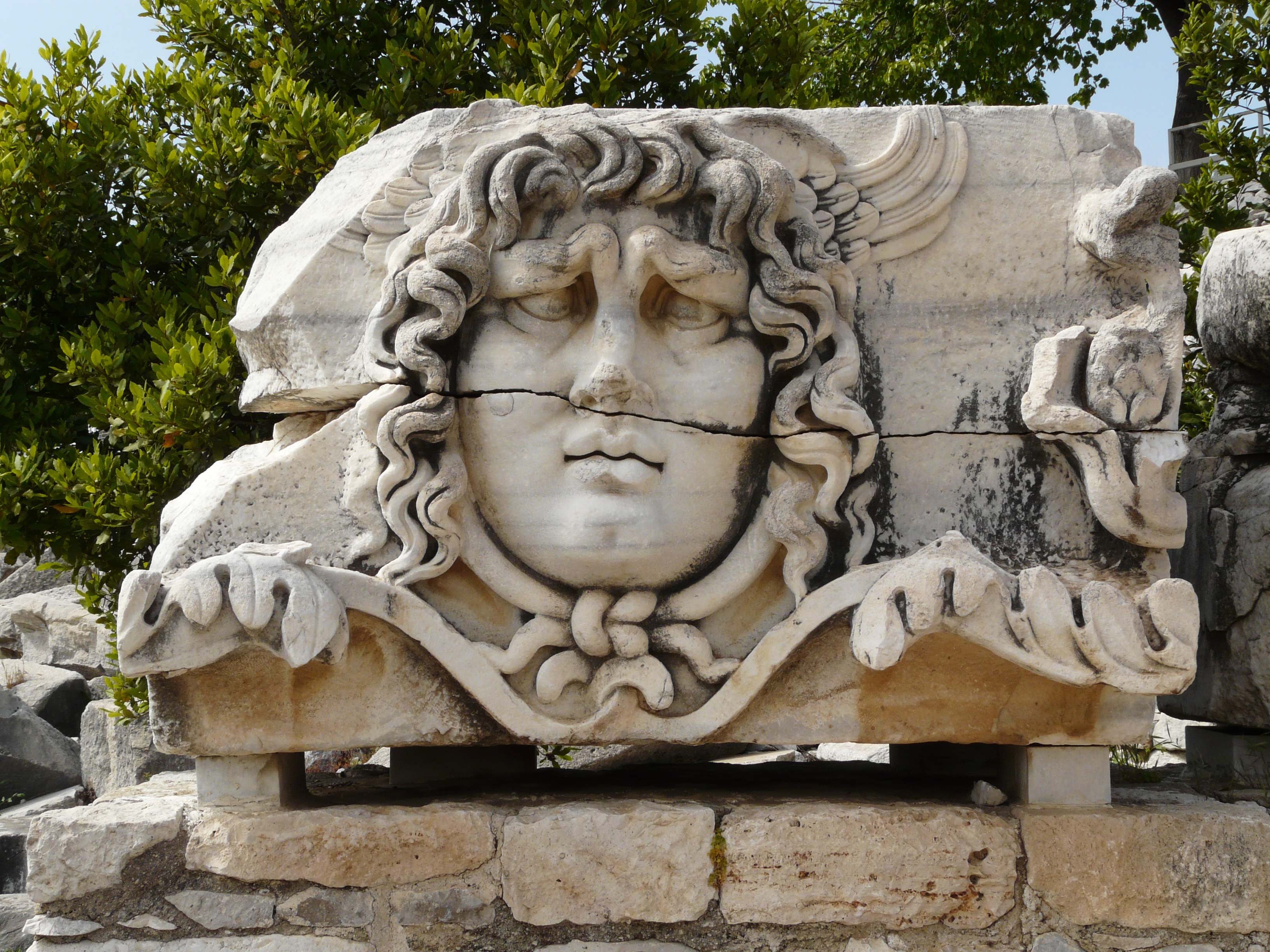 Medusa of temple of Apollo in Didyma